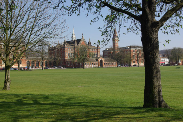 Dulwich College The school's Victorian buildings, seen from Dulwich Common. Dulwich College was founded in 1619.